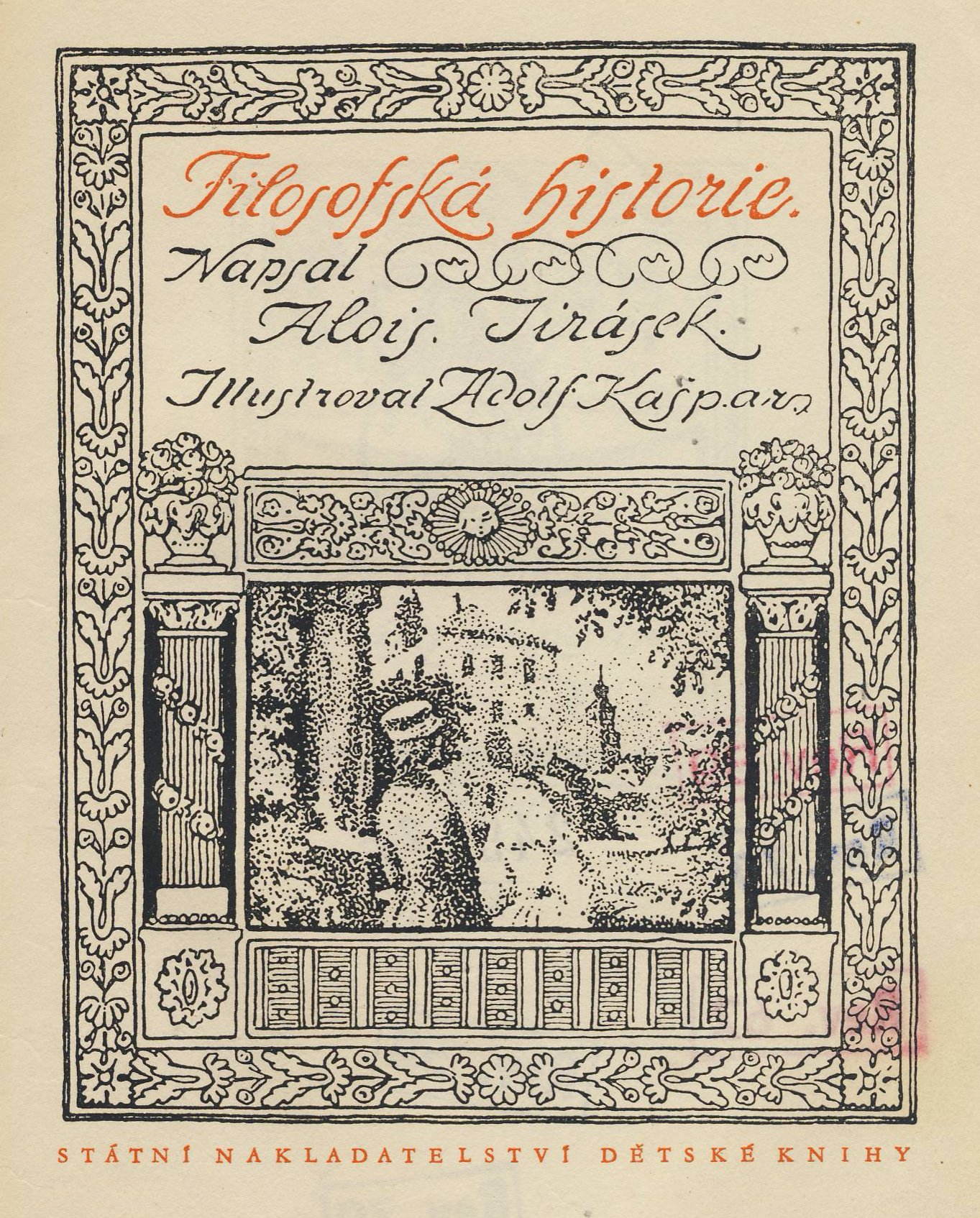 Picture from title page of book Filosofská historie, 27th edition.